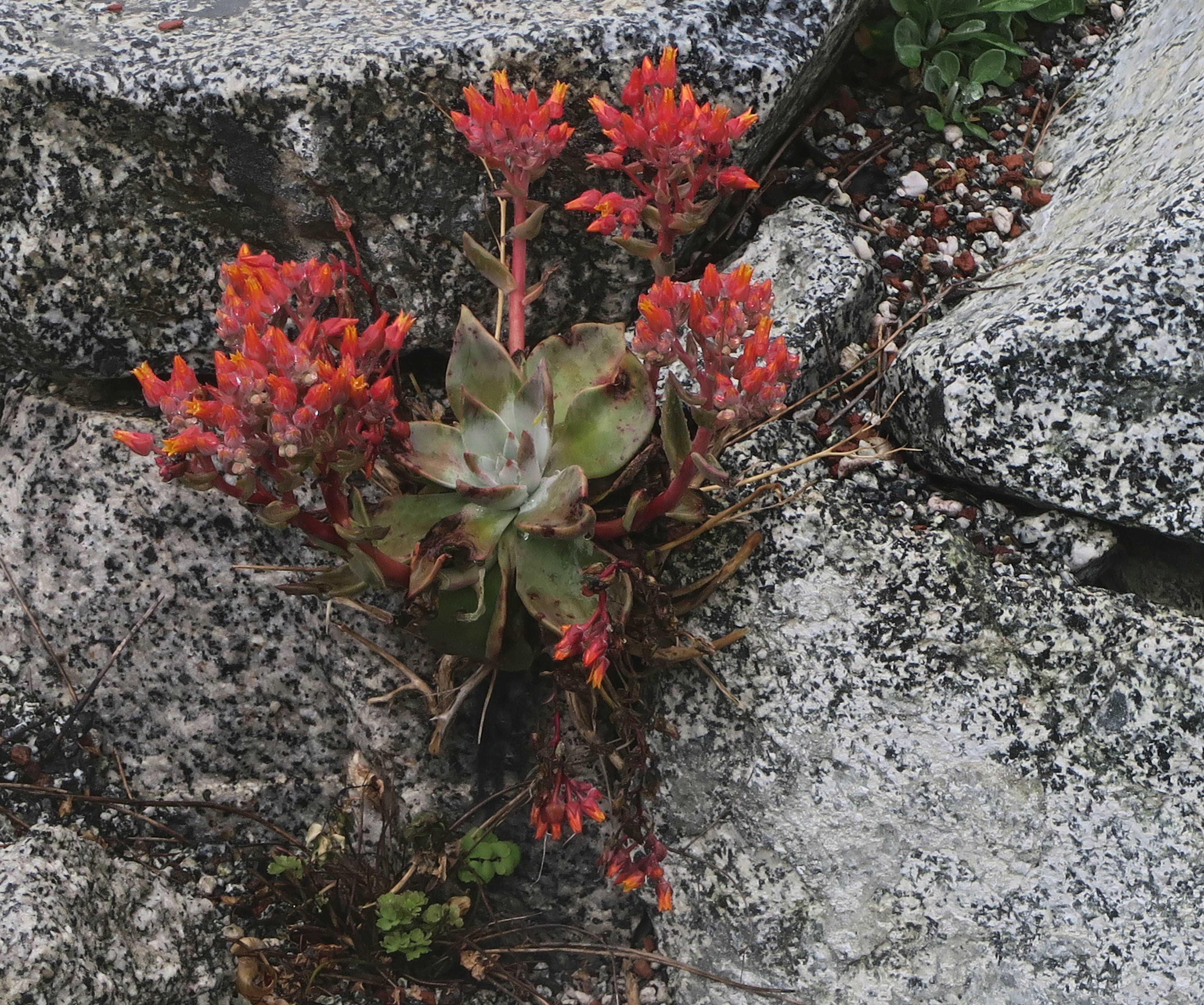 Dudleya cymosa—canyon Dudleya. The most common Dudleya in inland northern and central California, its range extends south to the Transverse Ranges. The host plant of the Sonoran blue butterfly (Philotes sonorensis.) The flowers, which range from yellow to deep red, are a favorite of hummingbirds. Photographed at Regional Parks Botanic Garden located in Tilden Regional Park near Berkeley, CA.